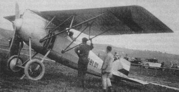 Czechoslovakian fighter aircraft Letov Š-3. 1920s.